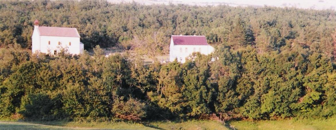 Vrbica 2004. Picture taken by Marko Pokrajac on Livno Valley, Bosnia summer 2004 and released to the public domain.